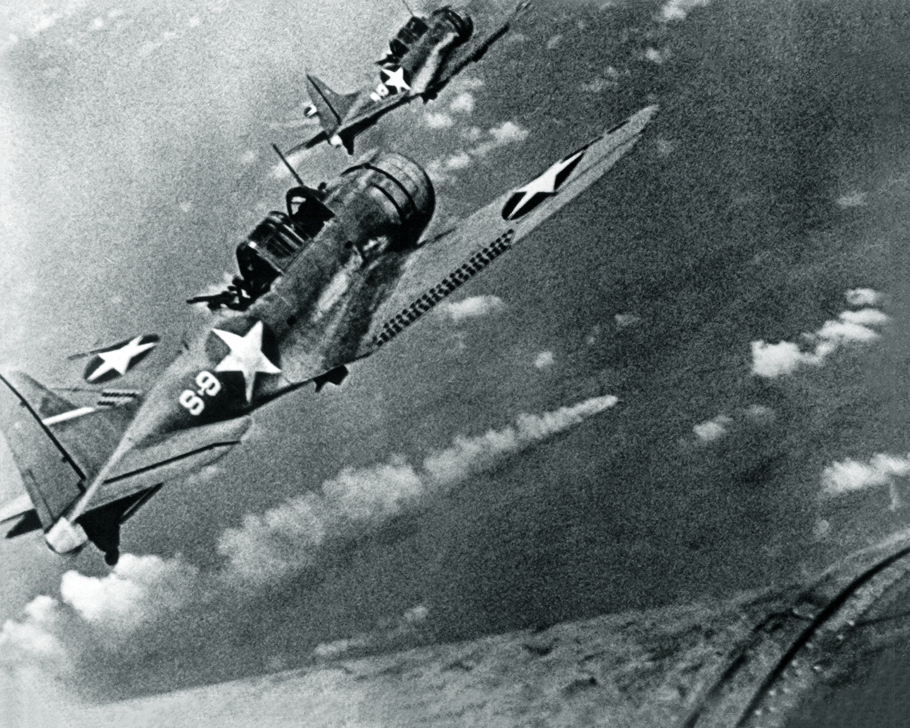 U.S. Navy Douglas SBD-3 "Dauntless" dive bombers from scouting squadron VS-8 from the aircraft carrier USS Hornet (CV-8) approaching the burning Japanese heavy cruiser Mikuma to make the third set of attacks on her, during the Battle of Midway, 6 June 1942. Mikuma had been hit earlier by strikes from Hornet and USS Enterprise (CV-6), leaving her dead in the water and fatally damaged. Note bombs hung beneath the SBDs.